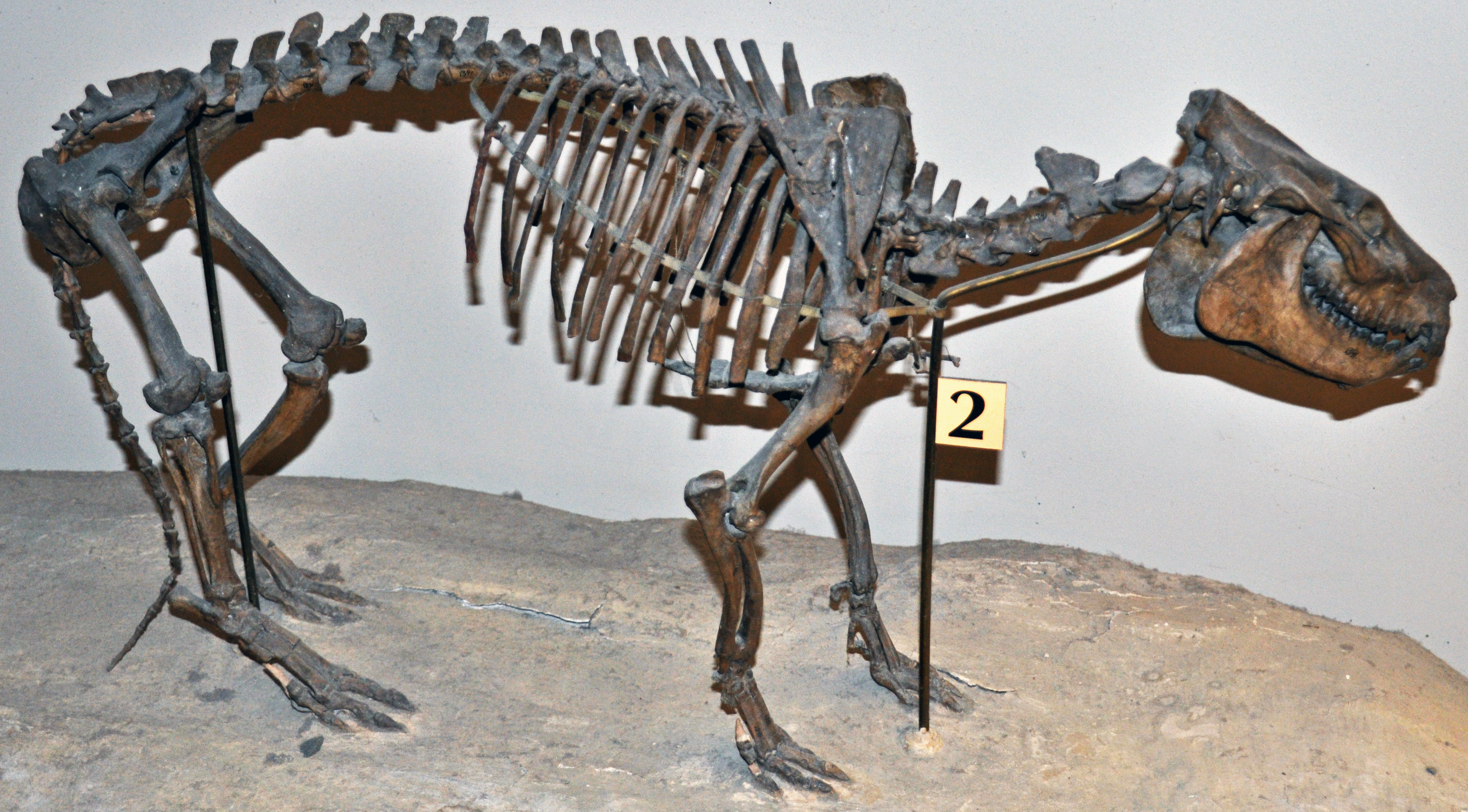 Diplobunops matthewi (Peterson, 1919) - fossil mammal skeleton from the Eocene of Utah, USA. (CM 11801, Carnegie Museum of Natural History, Pittsburgh, Pennsylvania, USA) This specimen was formerly referred to as Diplobunops ultimus. Diplobunops matthewi is also known as Agriochoerus matthewi. From museum signage: "Diplobunops was an artiodactyl like pigs, camels, and deer. However, it had claws instead of hooves and wasn't a swift runner. It may have lived in herds, since many fossilized remains have been found together." Classification: Animalia, Chordata, Vertebrata, Mammalia, Artiodactyla, Agriochoeridae See info. at